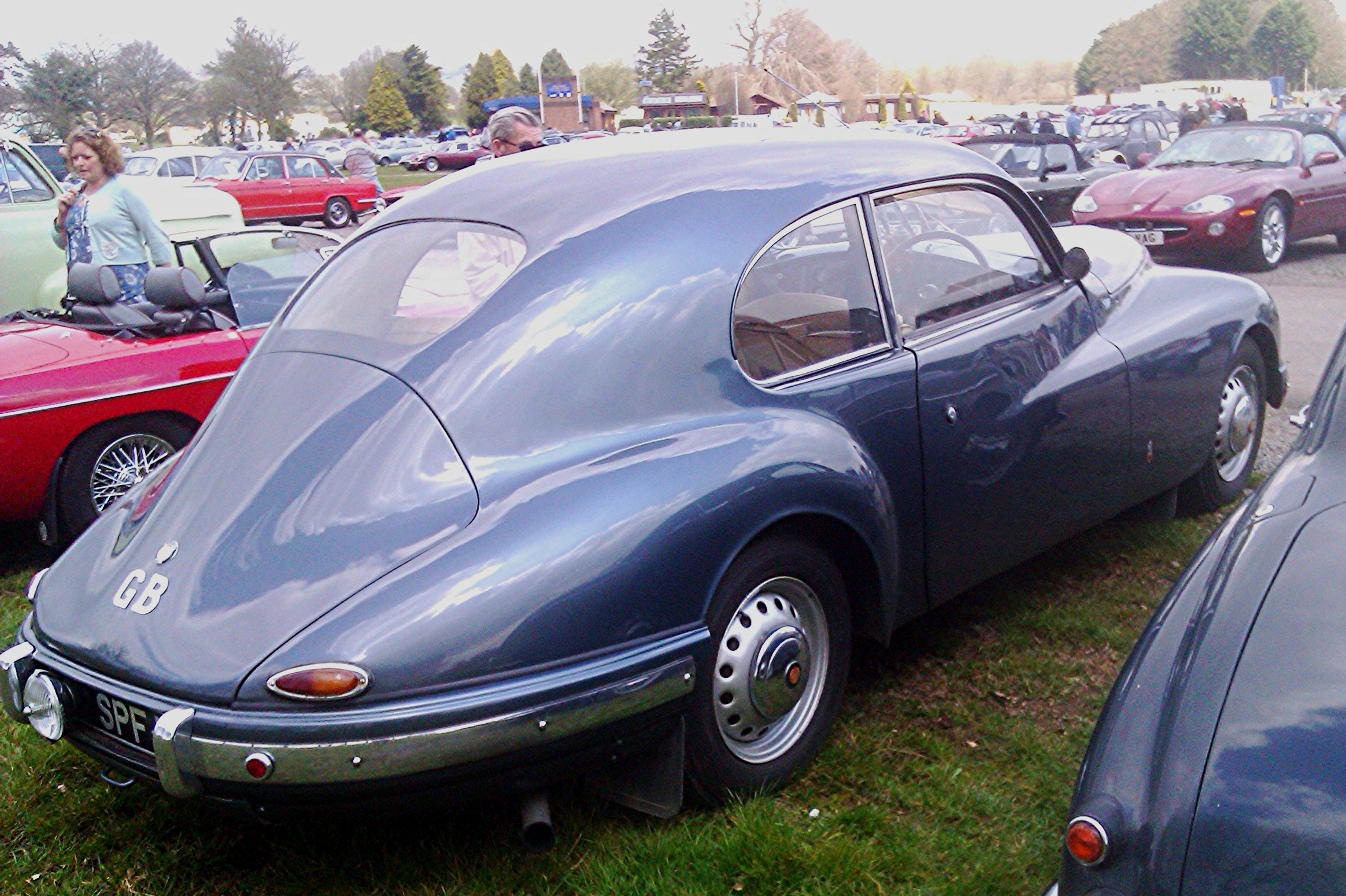 Bristol Type 401 1952 (DVLA) first registered 1 November 1952, 1971 cc Footman James Bristol Classic Car Show 20th April 2013